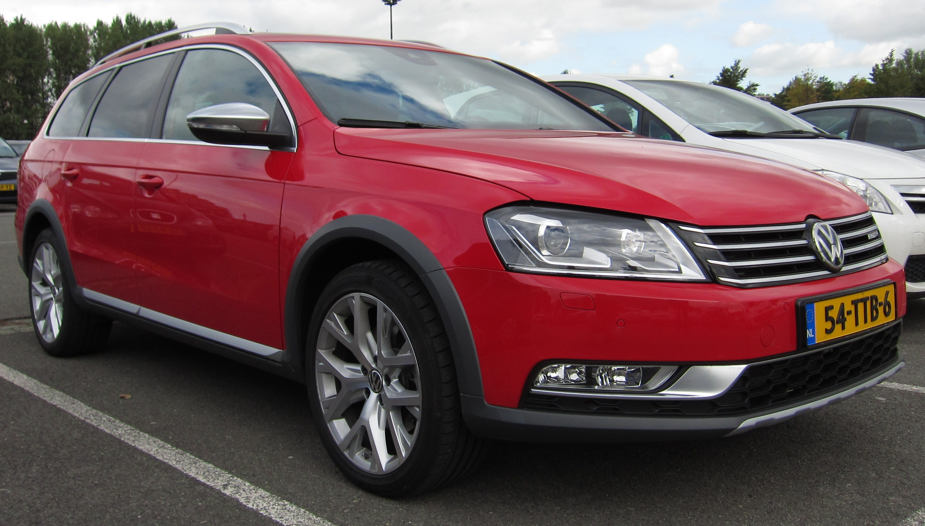 Volkswagen Passat Alltrack